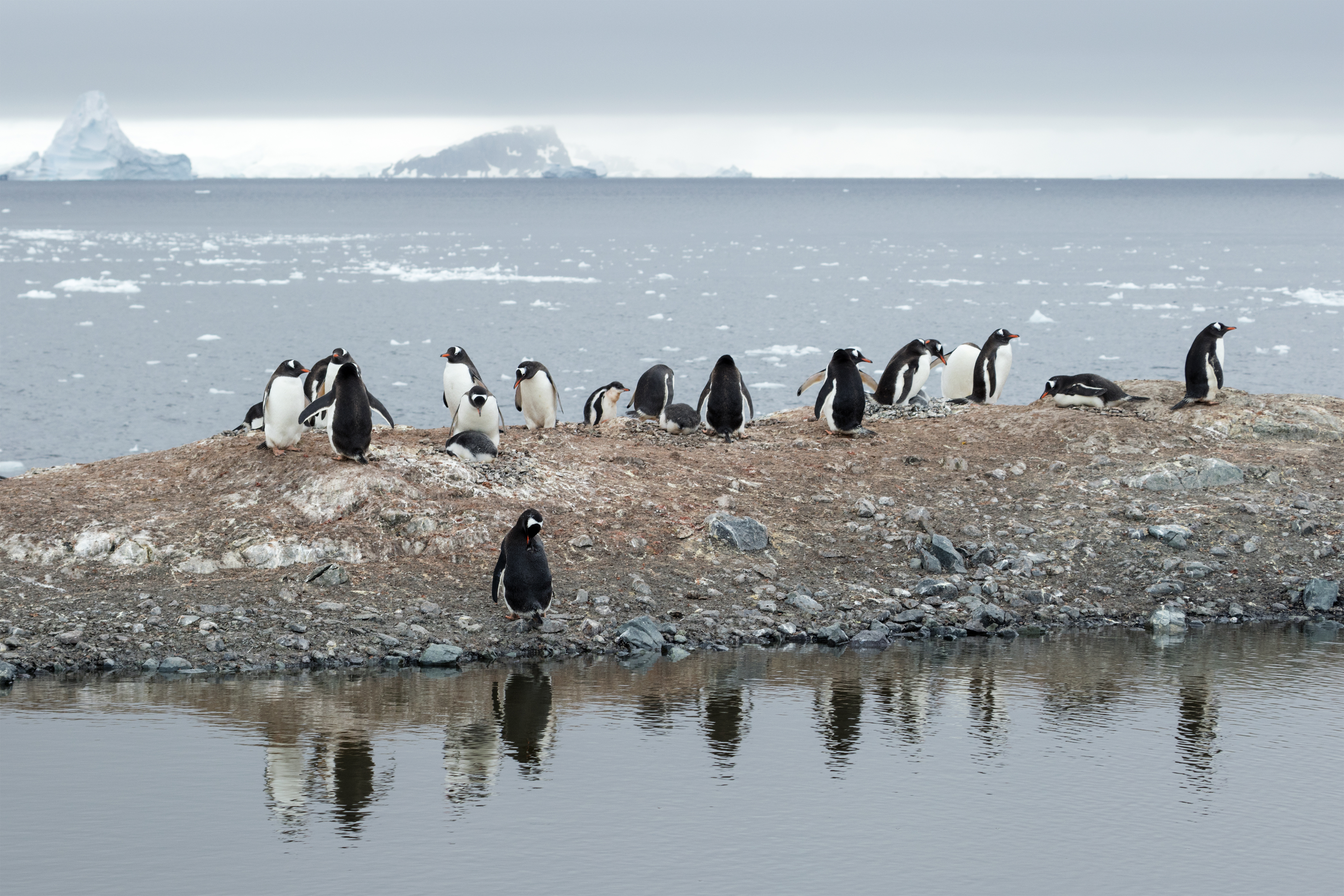 Gentoo penguin (Pygoscelis papua), D'Hainaut Island, Mikkelsen Harbour, Trinity Island